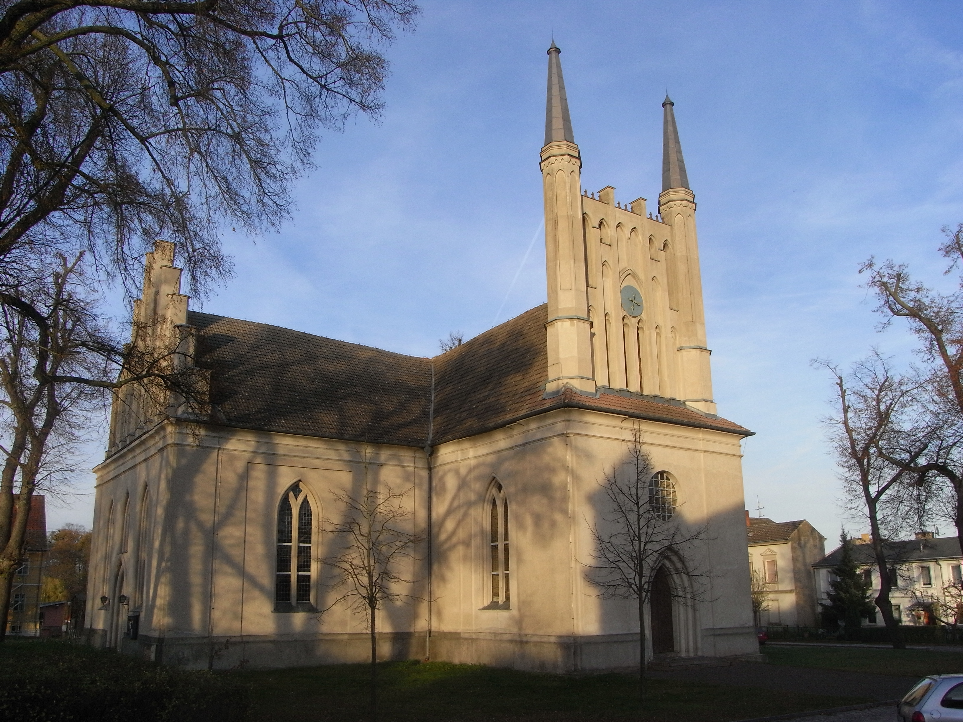 Southwest view of Joachimsthal church, Barnim district, Brandenburg state, Germany